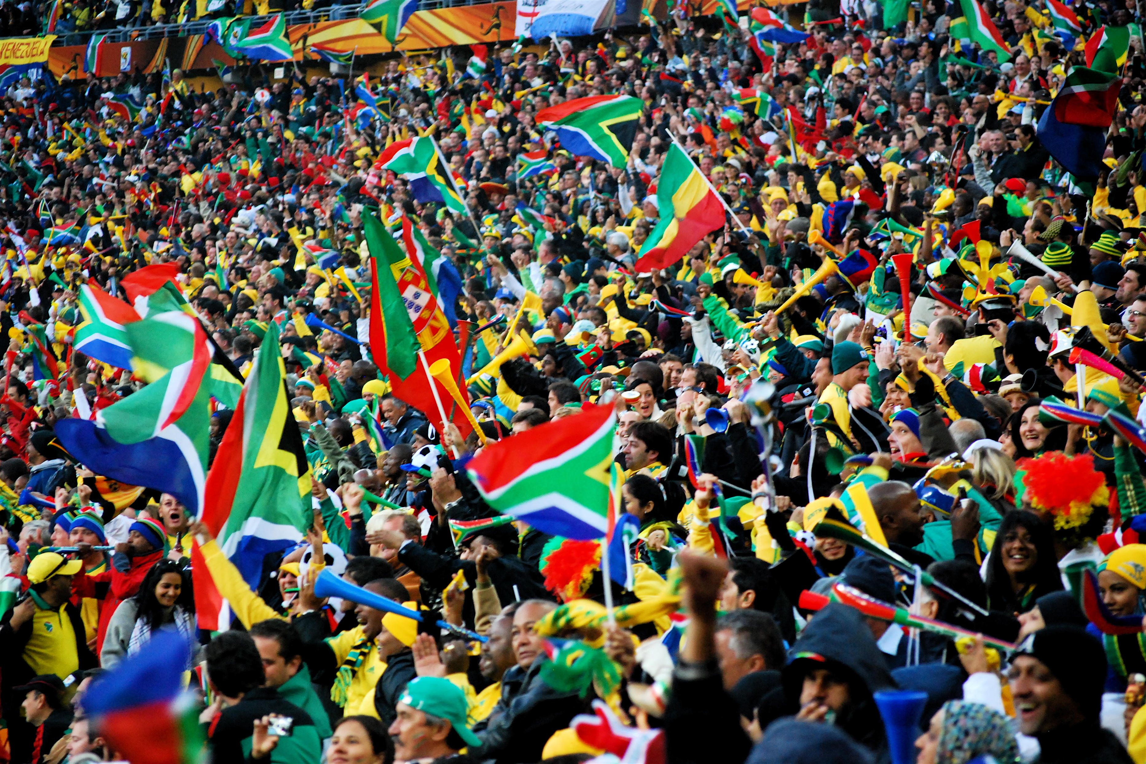 FIrst Match of the Fifa World Cup - Mexico VS South Africa - In Soccer City, Johannesburg